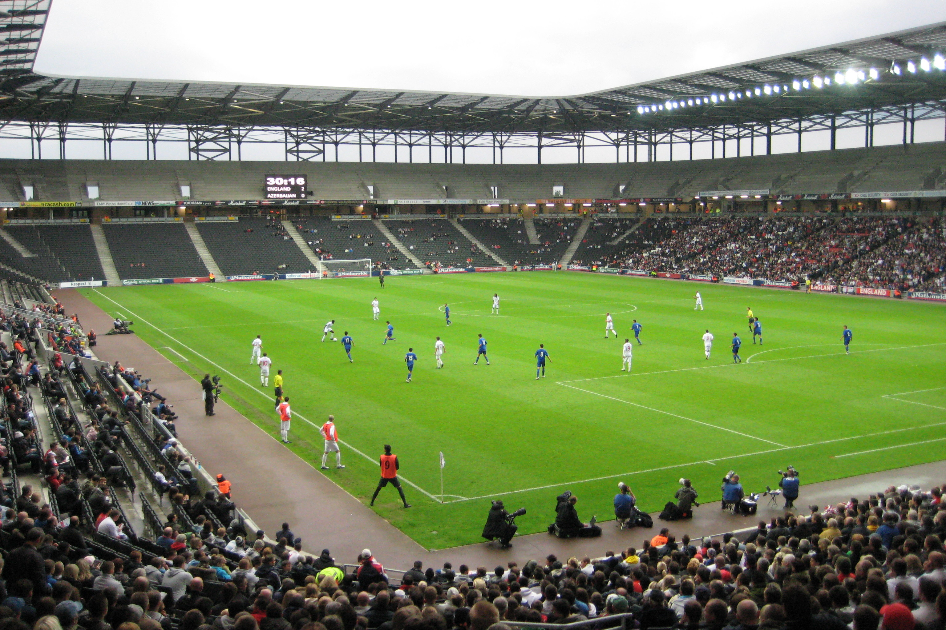 Picture of Stadium:MK during the game between England U21 and Azerbaijan U21s, in a warm-up game for the European Under 21 Championship. Taken from the South Stand, or Cowshed as referred to by Milton Keynes fans.